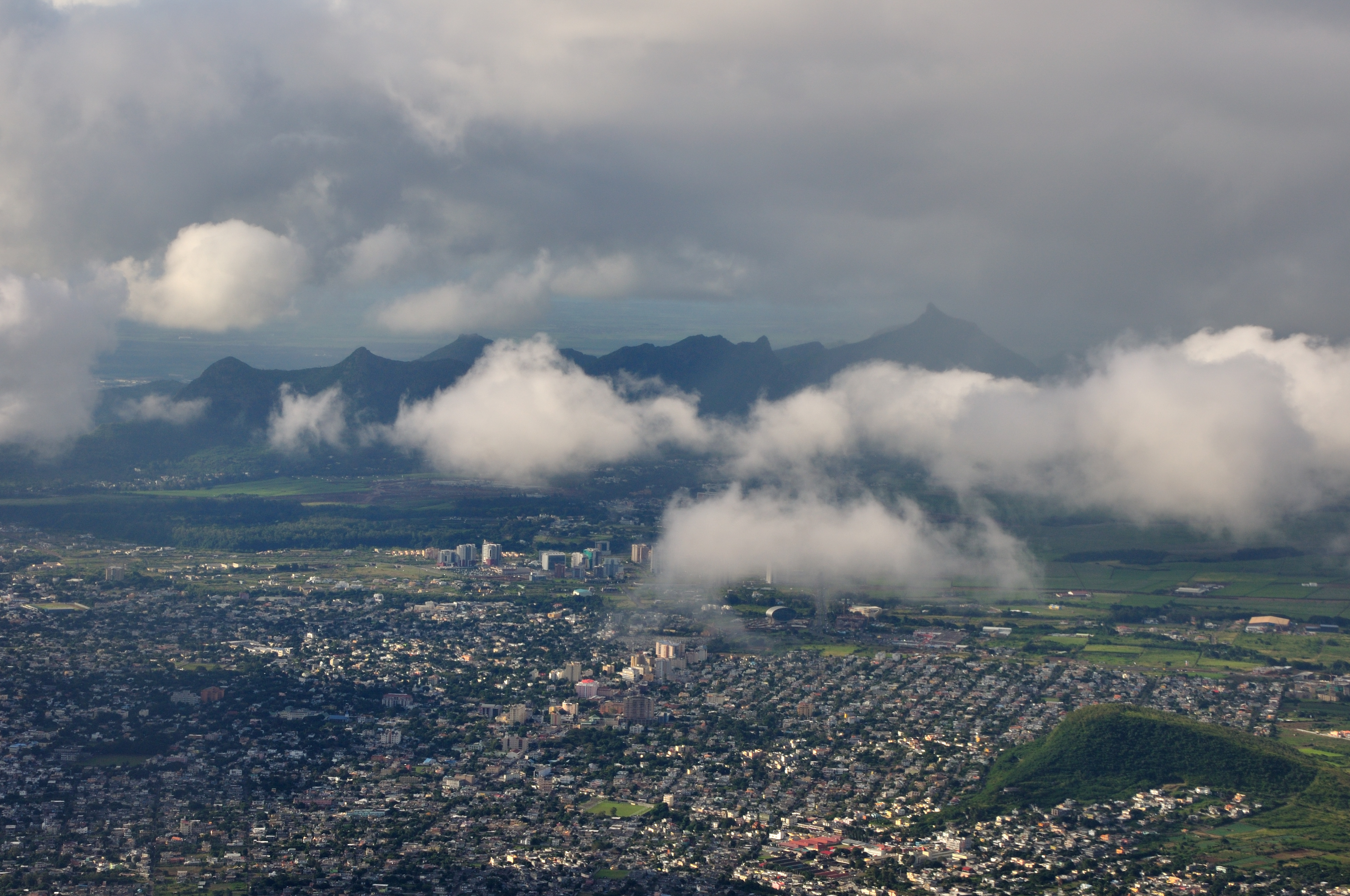 Mauritius, aerial impressions of Mauritius during an approach into Sir Seewoosagur Ramgoolam International Airport